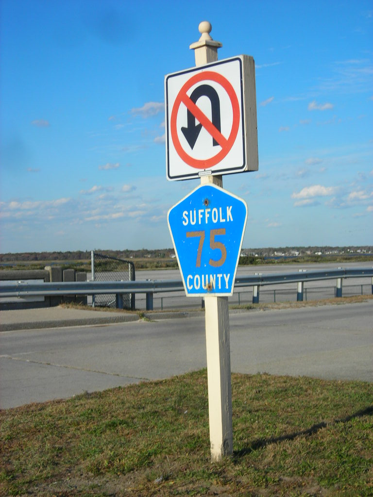 Suffolk County Route 75 - New York heading through Jones Beach.